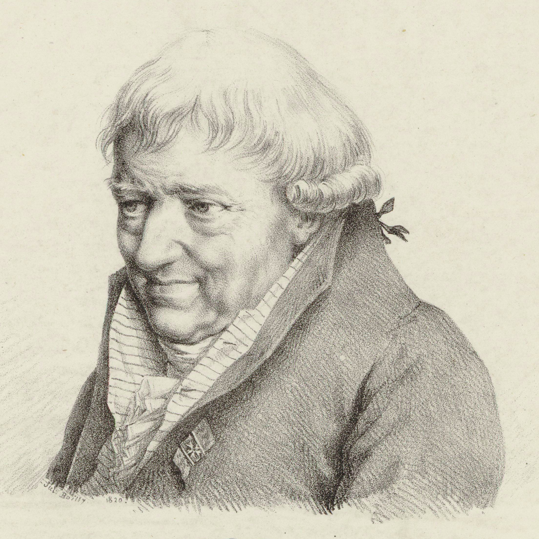 Depicted person: François Joseph Gossec